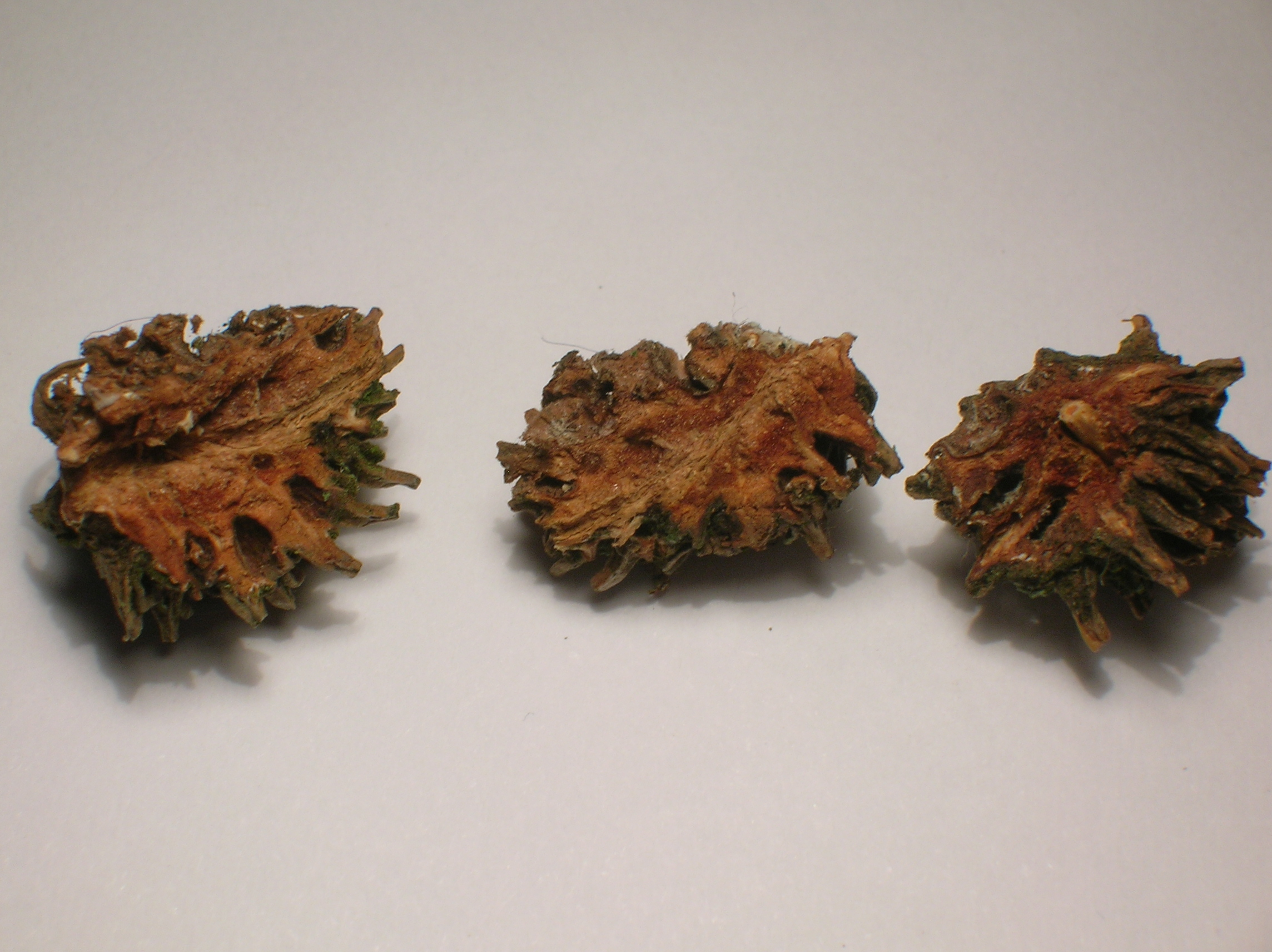 Sectioned Pineapple Galls caused by Adelges abietis on Norway Spruce.